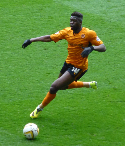 Bakary Sako - Wolverhampton Wanderers vs Peterborough United (05/04/2014)